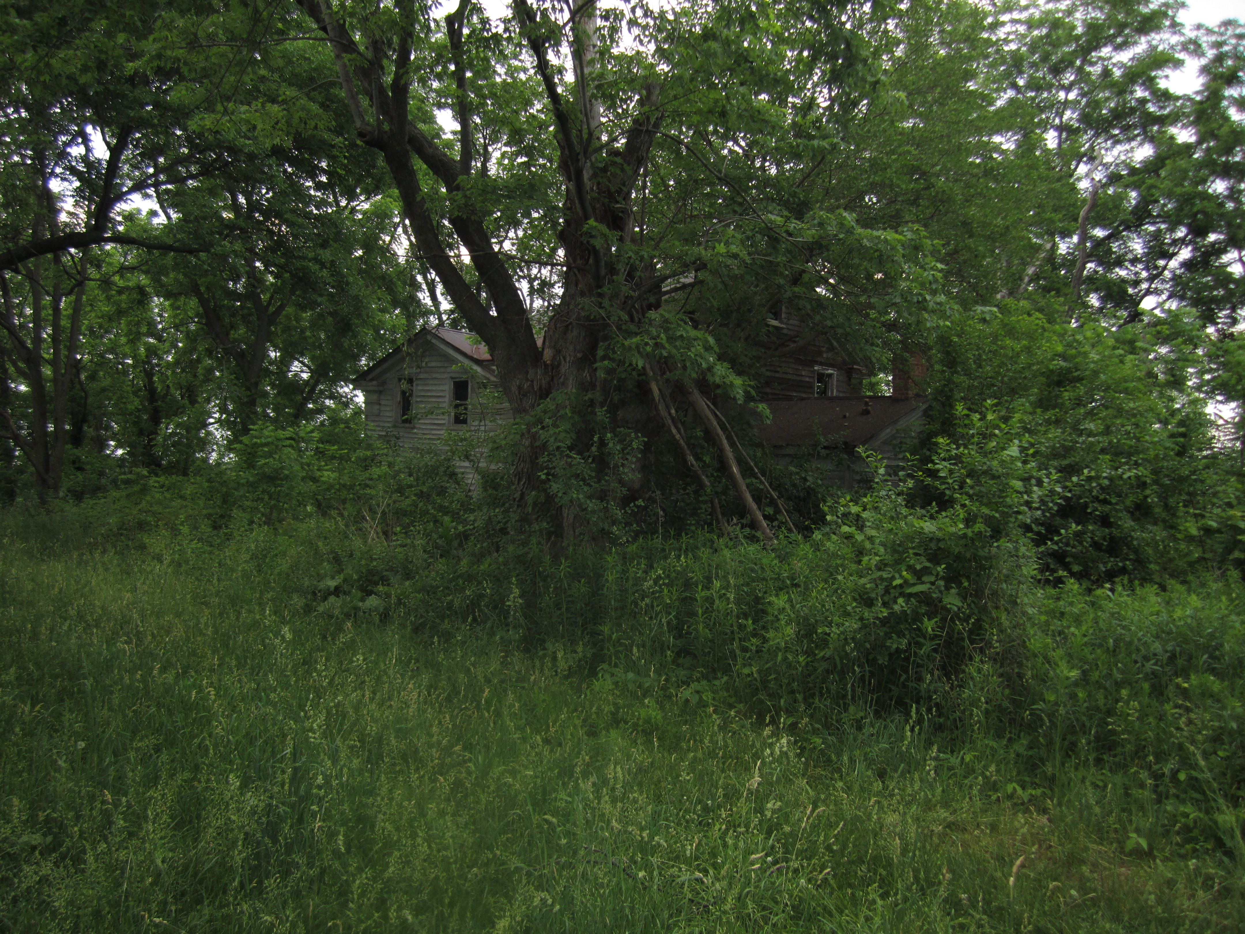 An abandoned farmhouse hidden in the trees and greenery that has overtaken it. There was also at least one barn in this hidden property that was back a long driveway from the road. Though I am not a historian, this house is a similar vernacular to other houses that date from the 1820s to the 1850s in the area. The farmstead is long abandoned but the fields around it are very much active, exemplary of the effects of intensive farming leading to rural decay; the town that it is in saw a population loss of nearly 70% between 1870 and 1880.